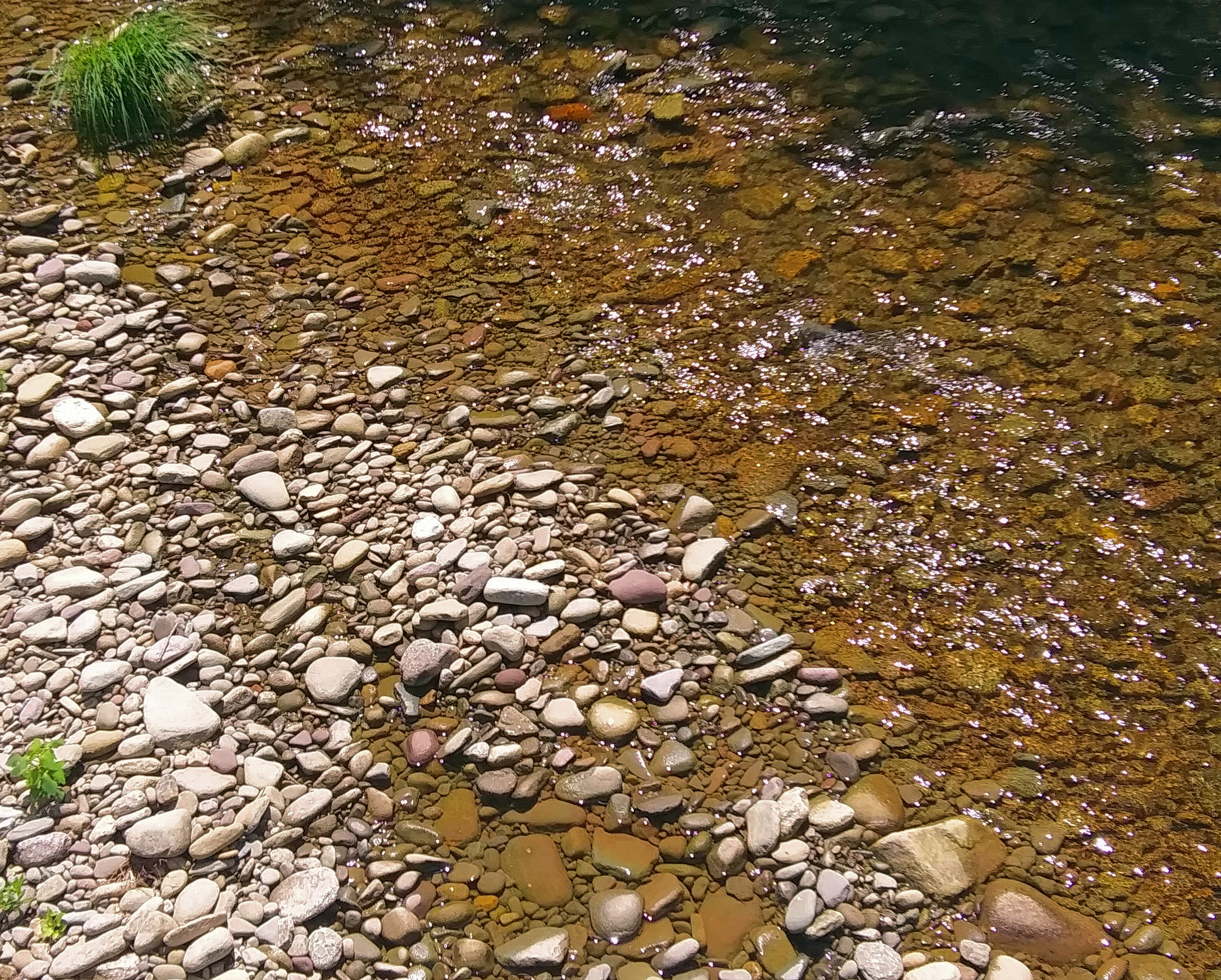 Imbricated rocks on the bed of the headwaters of Esopus Creek, seen from the Maben Hollow Road bridge in Oliverea, NY, USA.